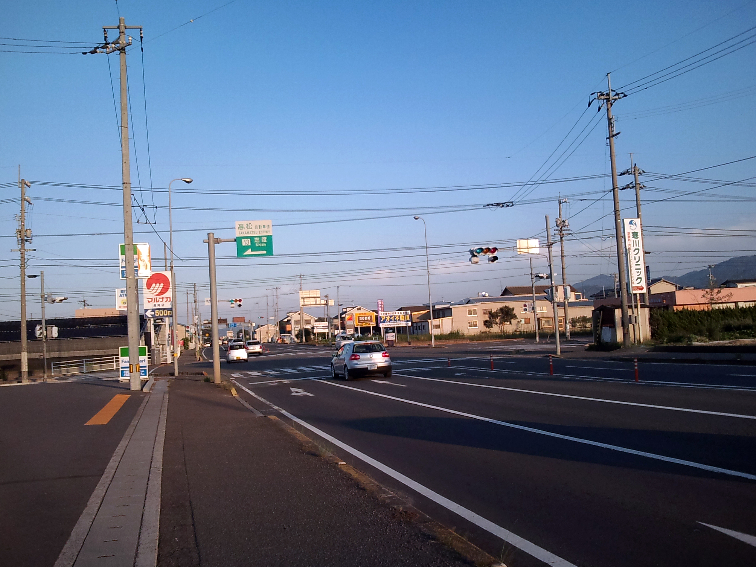 Nagao chuo crossing. Nagao-nishi,Sanuki,Kagawa. Shooting from the direction of Takamatsu. prefectural road Route 3 crossing roads.